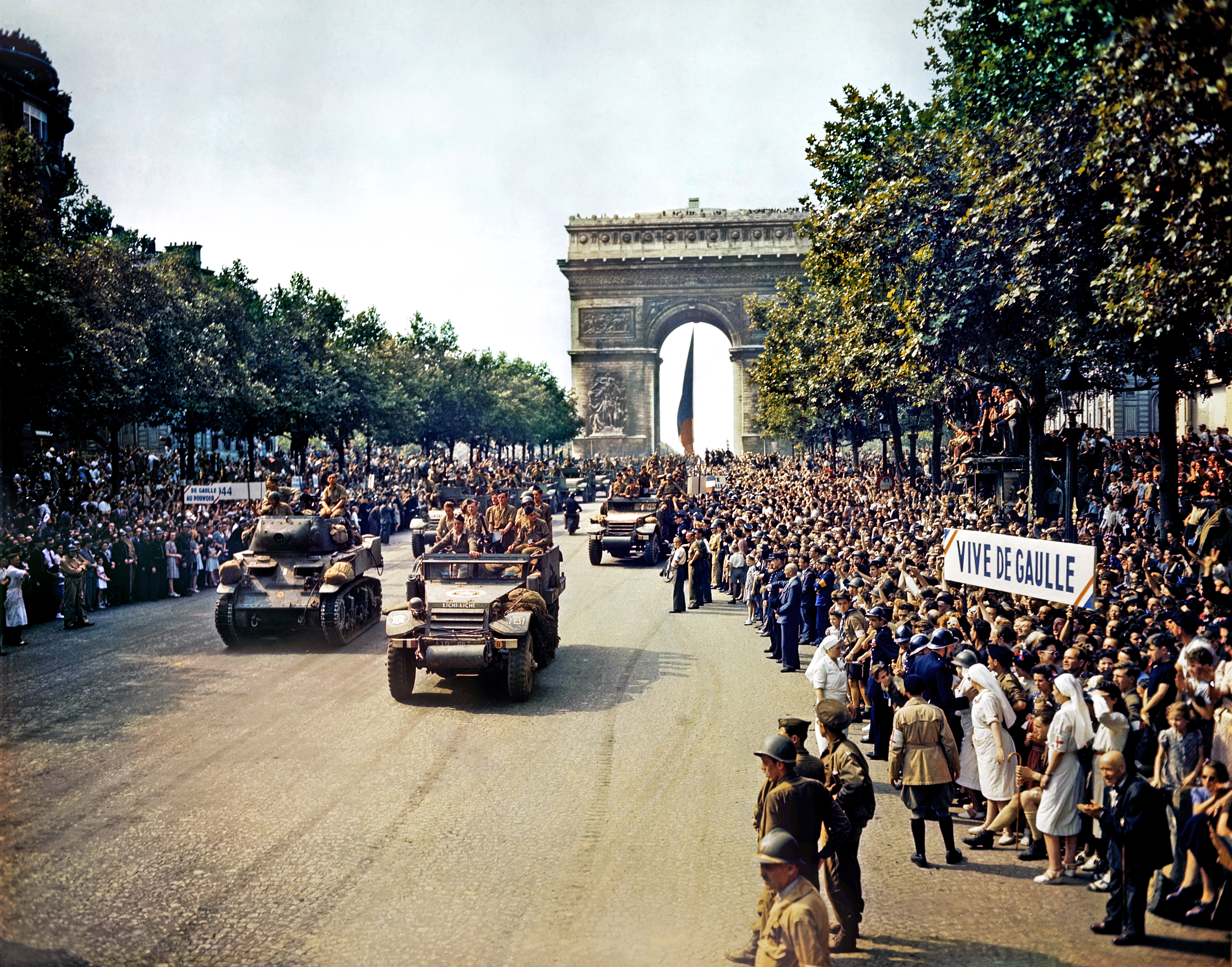 Crowds of French patriots line the Champs Elysees to view Free French tanks and half tracks of General Leclerc's 2nd Armored Division passes through the Arc du Triomphe, after Paris was liberated on August 26, 1944. Among the crowd can be seen banners in support of Charles de Gaulle.